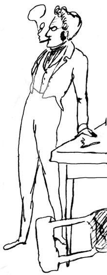 Reconstruction of the Stirner figure which appears in a caricature by Friedrich Engels (1820 - 1895) of one of the meetings of the group "Die Freien", a philosophical gathering of Berlin in the early 1840s in which Max Stirner.